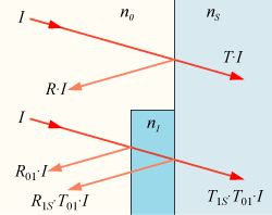 Reflection and transmission coefficients of an optical coating